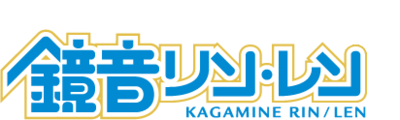 Vocaloid_Kagamine_rin_len_logo